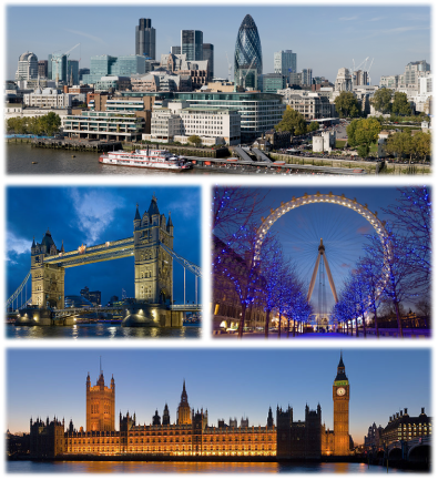 London collage.